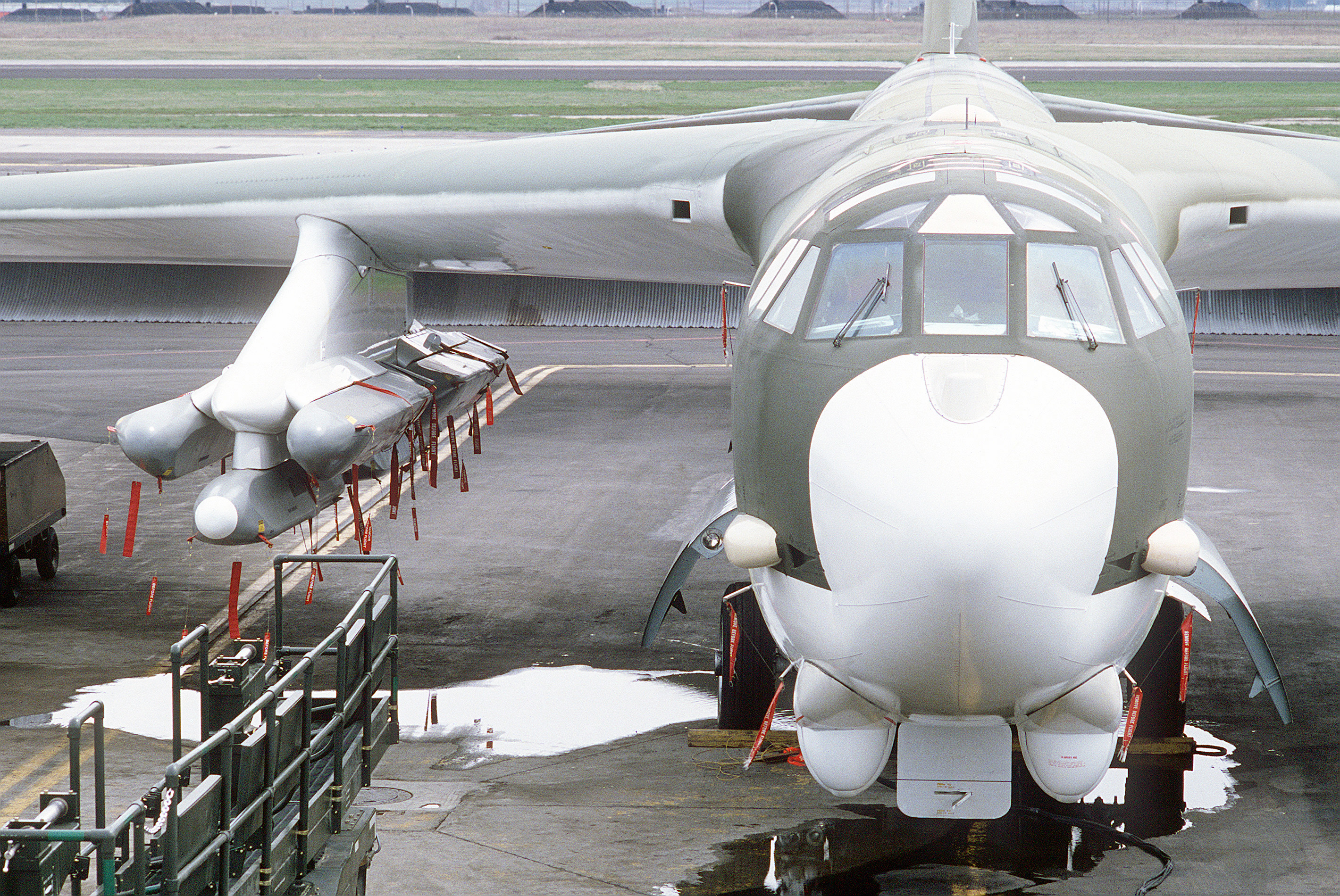 A specially-designed remote control hydraulic trailer is removed from under the wing of a 92nd Bomb Wing B-52G Stratofortress aircraft. The trailer was used to attach a pylon carrying six AGM-86B air-launched cruise missiles (ALCM), background, to the wing of the aircraft.